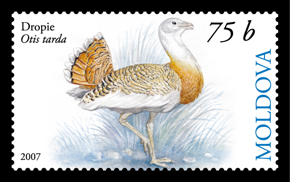 Stamp of Moldova